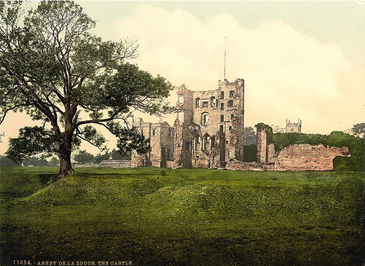 a colour tinted photograph of ashby de la zouch castle